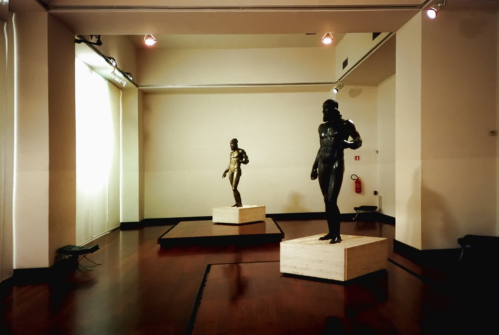 In the year 1972 two bronze statues from greece dating back to 460 until 430 b.c. were found on the bottom of the Ionic Sea near Riace Marina in Calabria in Italy. Since 1981 they are on view in the Museo Nazionale Di Reggio Calabria. The statues are put up on earthquake-proof platforms.